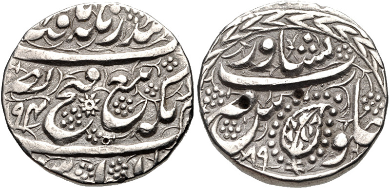 INDIA, Independent States. Sikh Empire. temp. Ranjit Singh. VS 1858-1896 / AD 1801-1839. AR Rupee (24mm, 8.53 g, 10h). Struck under governor Hari Singh. Peshawar mint. Dated VS [1]894 (AD 1837). Wiggins & Goron Type I; Herrli 13.02.04; KM 98.2. Good VF, schroff marks.